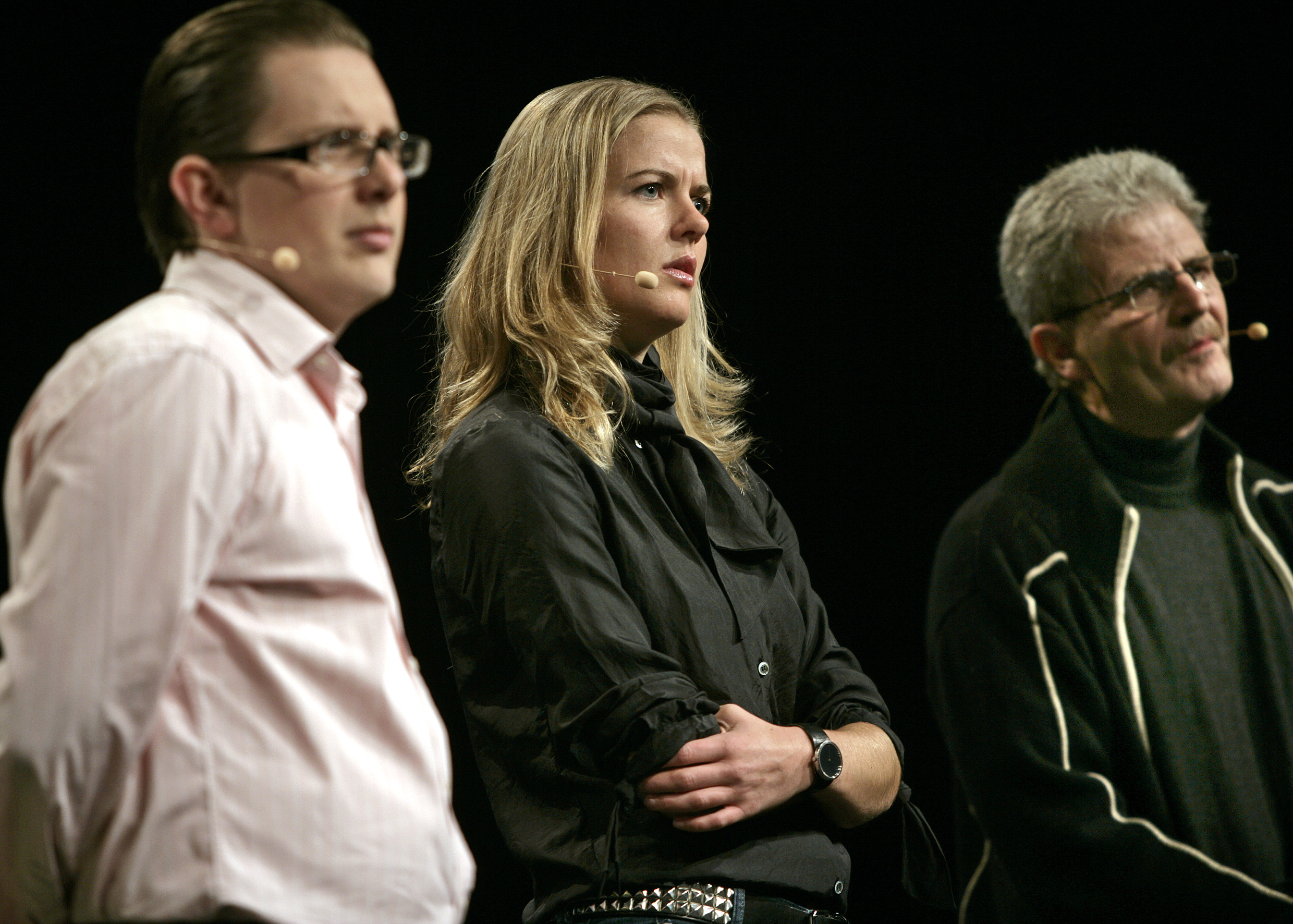 Three Danish members of Parliament. From left to right: Simon Emil Ammitzbøll (Social Liberals), Ellen Trane Nørby (Liberals), Holger K. Nielsen (Socialist People's Party)